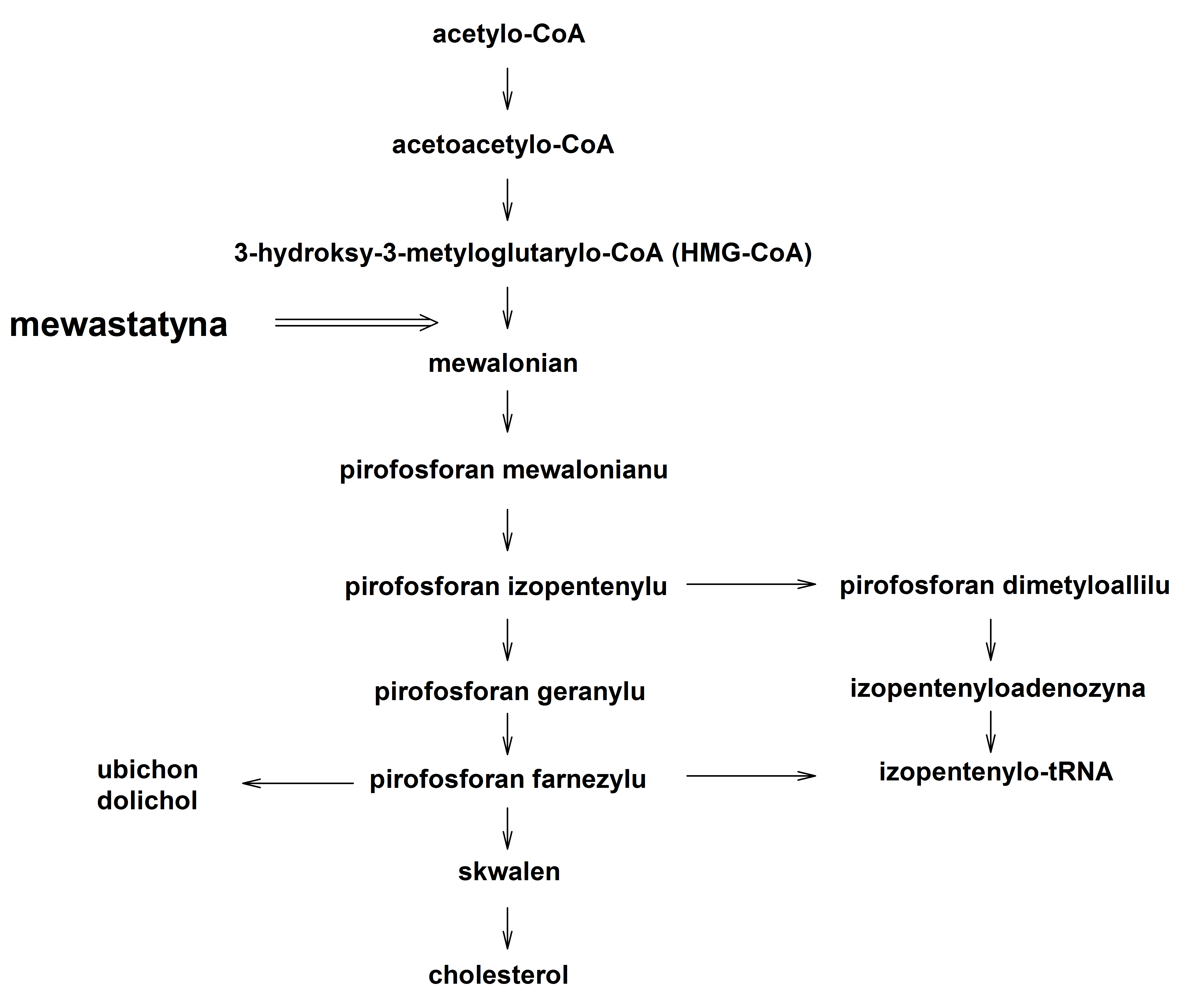 Cholesterol biosynthesis